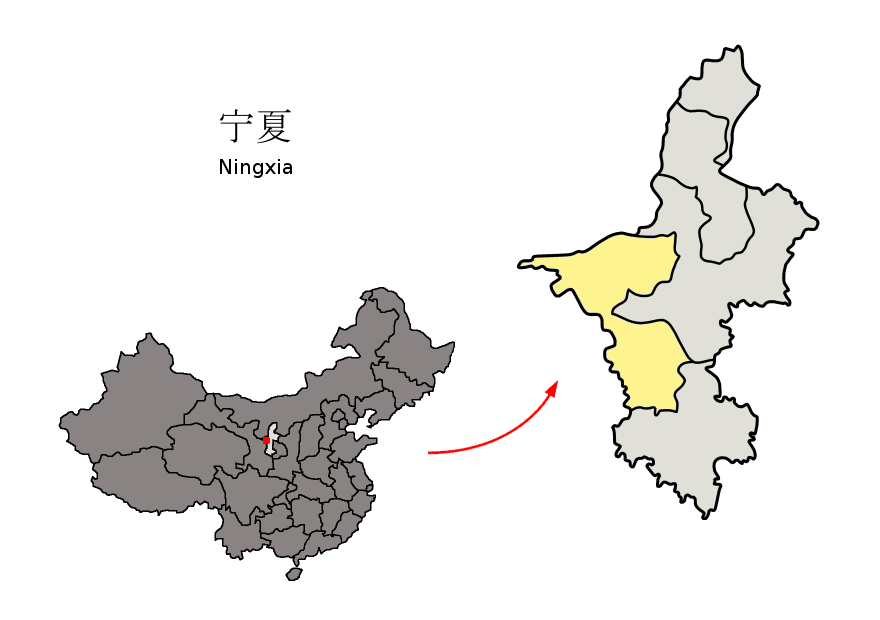 Location of Zhongwei Prefecture (yellow) within Ningxia Autonomous Region of China Map drawn in november 2007 using various sources, mainly : Ningxia Autonomous Region administrative regions GIS data: 1:1M, County level, 1990 Ningxia Counties map from This map includes Zhongwei jurisdiction not shown on sources, and the related changes in Guyuan and Wuzhong jurisdictions borders.